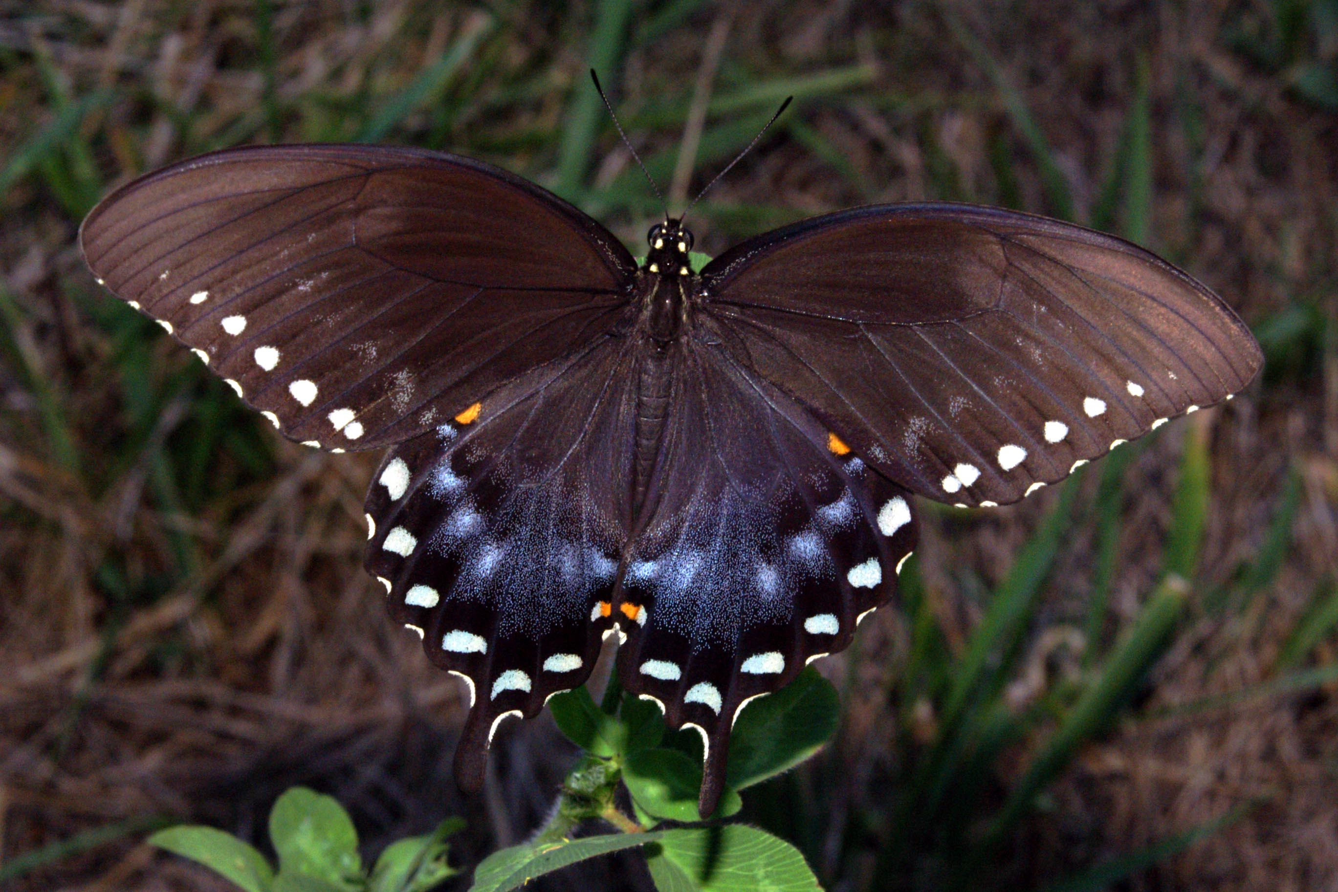 A Spicebush Swallowtail butterfly in Michigan. Photo taken by Kenneth Dwain Harrelson on August 7th, 2007.